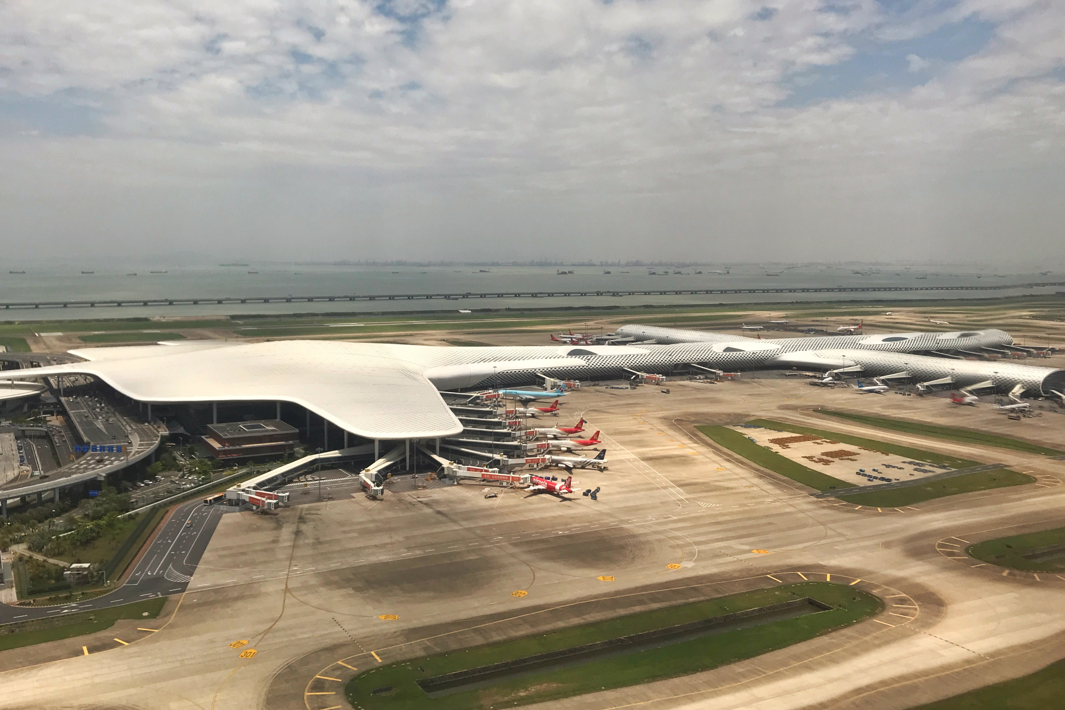 Aerial view of Shenzhen Bao'an International Airport in Jun. 2018